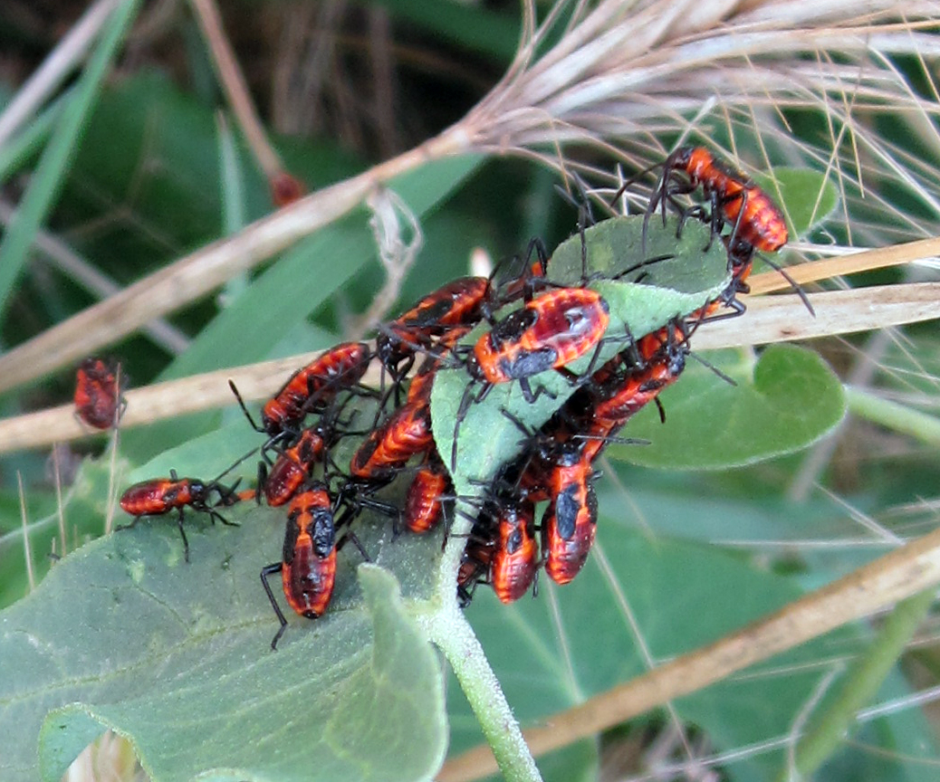 There is a heteropter and larvae are not adults-although the type of metamorphosis is incomplete and have similar strength in adults. Picture was made in Torà (Catalunya, Spain)